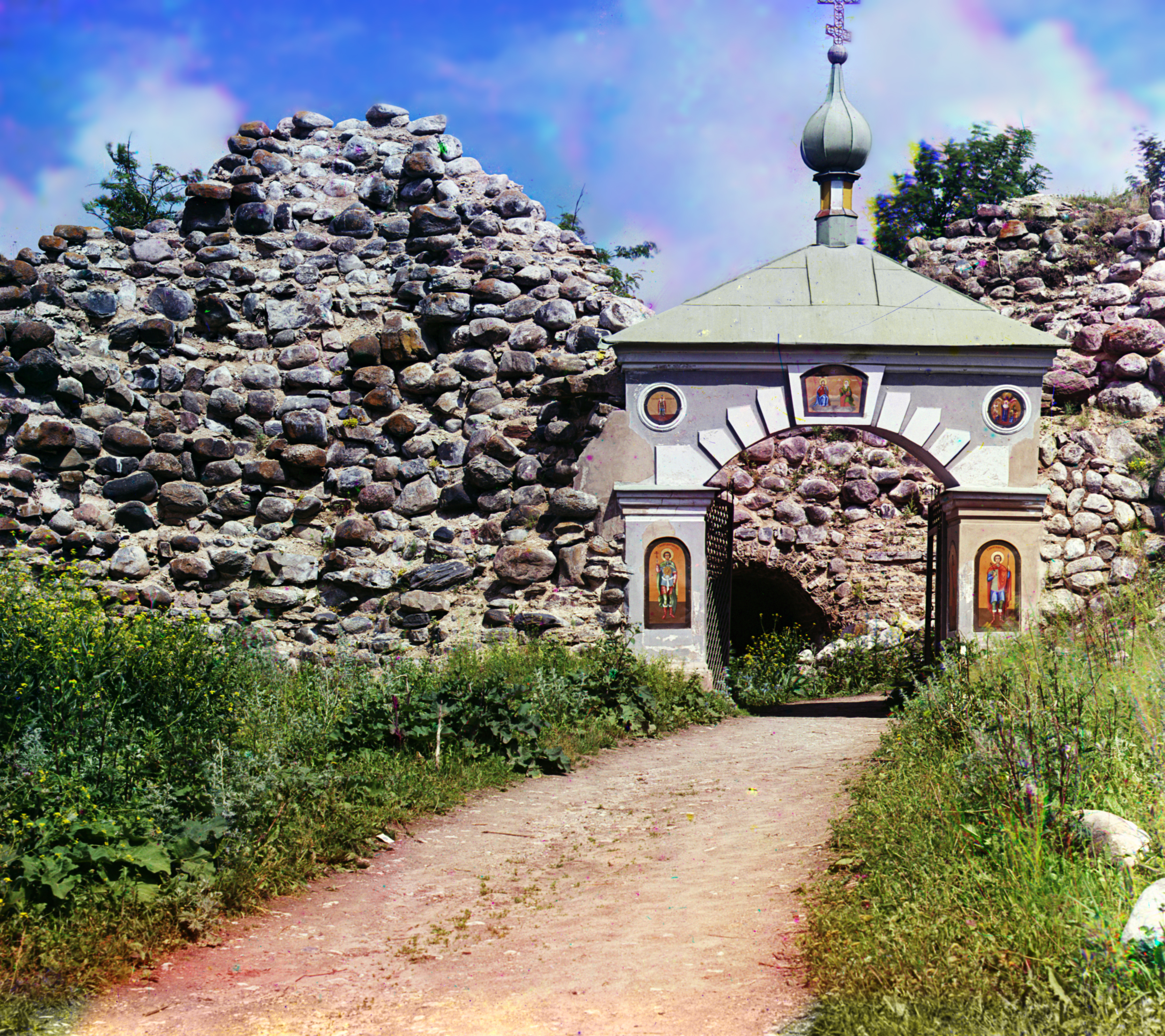 Entrance into the yard of the Church of Saint George. [Staraia Ladoga, Russian Empire]